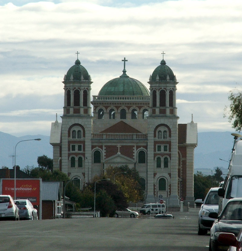 Sacred Heart Church (Timaru Basilica), Timaru, New Zealand. Designed by Francis Petre. Photographed by James Dignan (User:Grutness), 12 April 2012